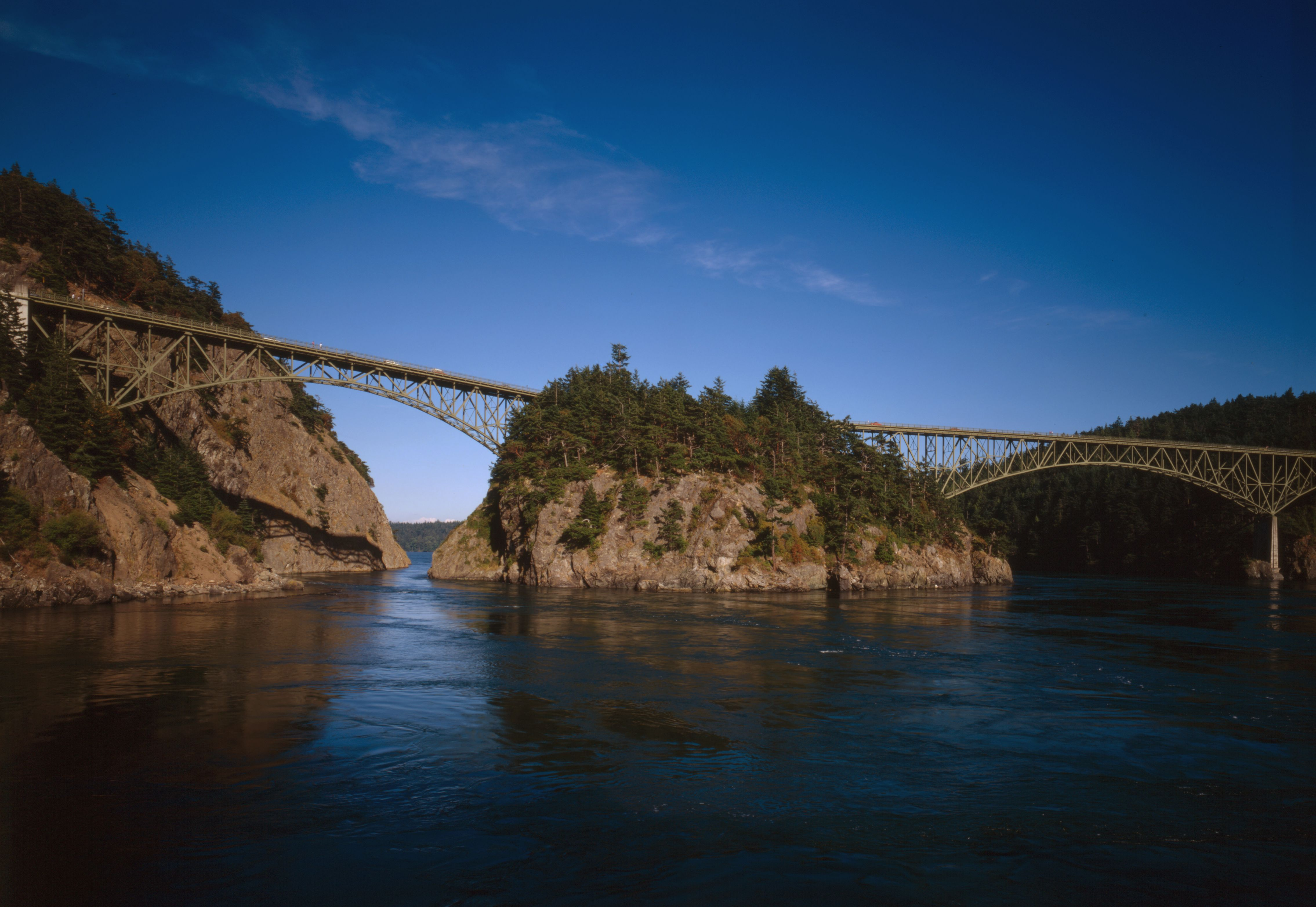 Canoe Pass and Deception Pass Bridges, Canoe and Deception Pass at State Route 20, between Skagit and Island Counties, WA